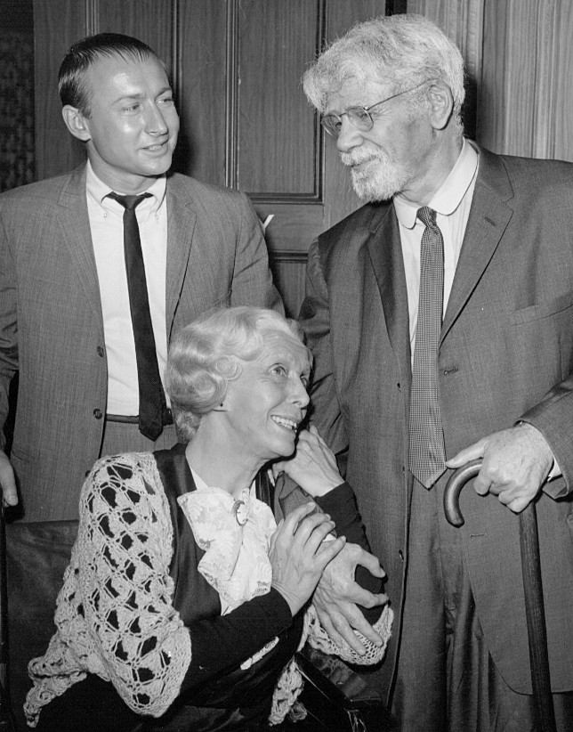 Photo of Nick Adams, Lili Darvas and Paul Muni from the television drama series Saints and Sinners.